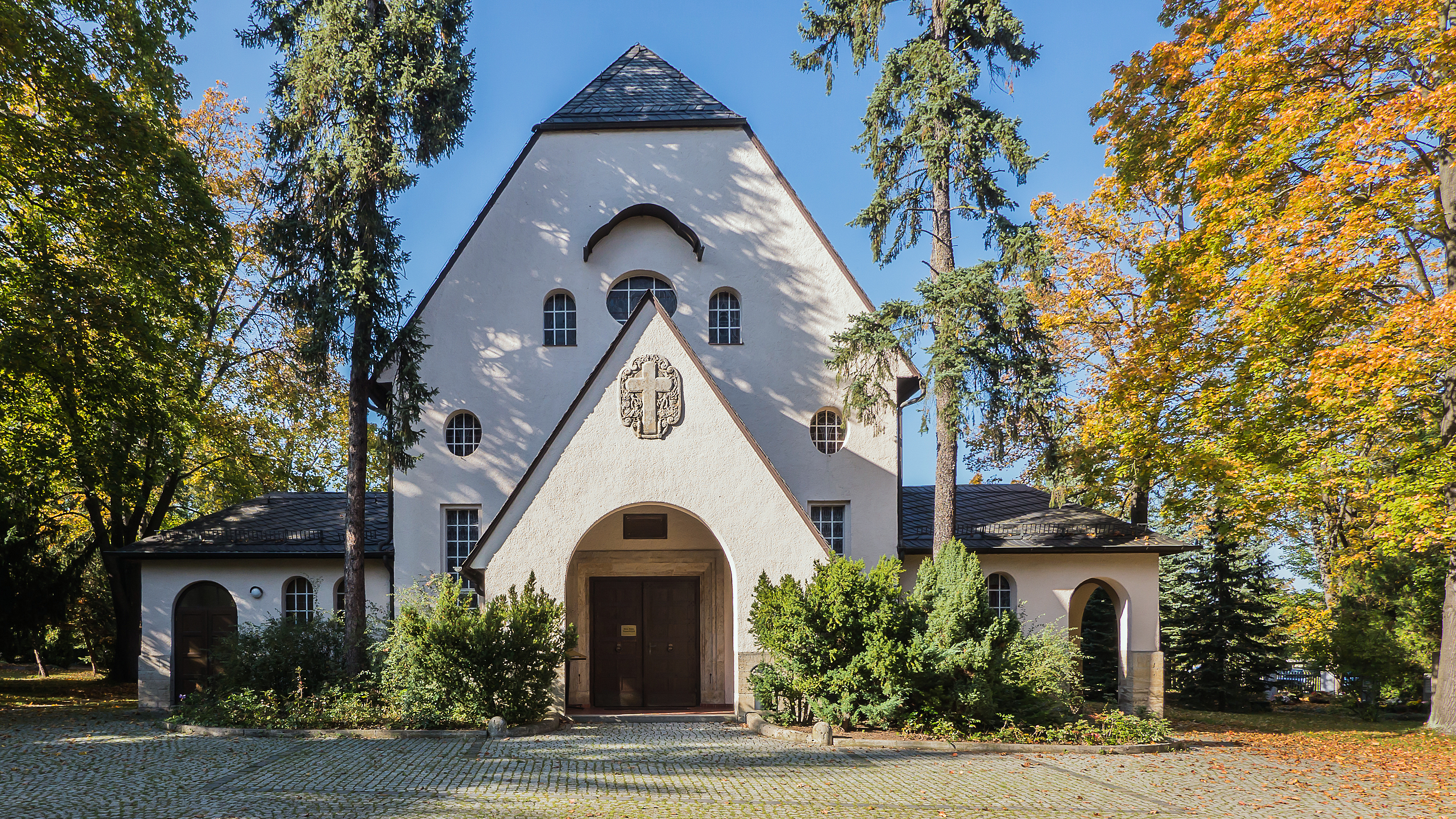 Saalfeld Friedhofstraße 2 Friedhof: Feierhalle einschl. Auerbach-Gruft und Krematorium